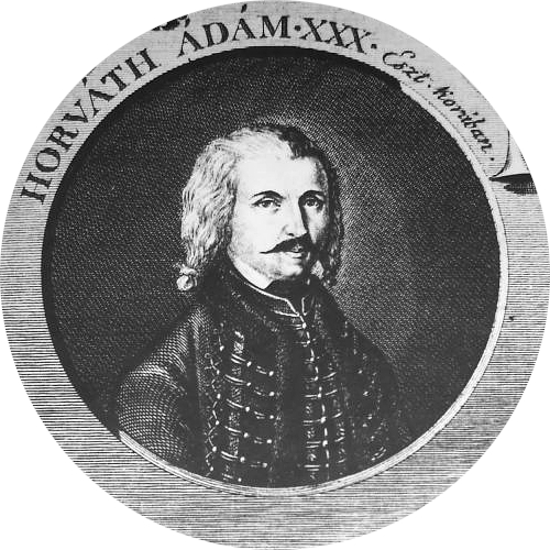 Portrait of Mr. Ádám Pálóczi Horváth (Kömlőd, May 11, 1760 – Nagybajom, January 28, 1820), Hungarian poet (derivative work).